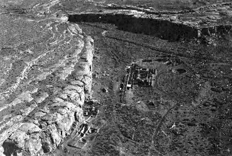 A National Park Service picture of Chetro Ketl from the south, 1981, by Fred Mang